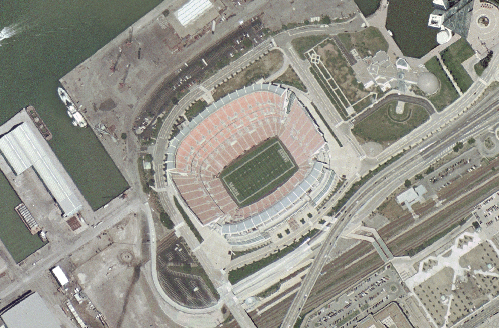 30 août 2006 à 13:18 . . Betp . . 992×653 (1 295 488 octets) (nasa world wind 1.3.5 ==Licence== Domaine public NASA )